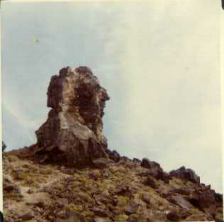 Volcanic fumerole. A likeness of Joseph Smith located in Millard County Utah